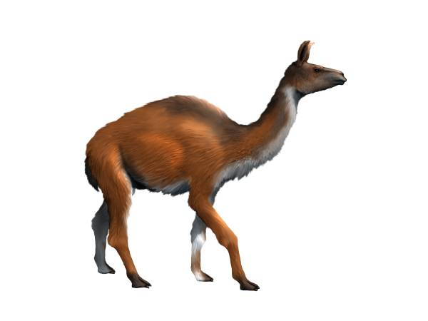 Life reconstruction of Camelops hesternus